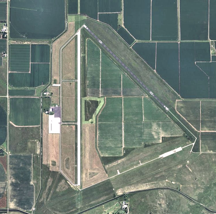 USGS orthophoto of Ainsworth Municipal Airport, formerly Ainsworth Army Airfield, in Nebraska, United States